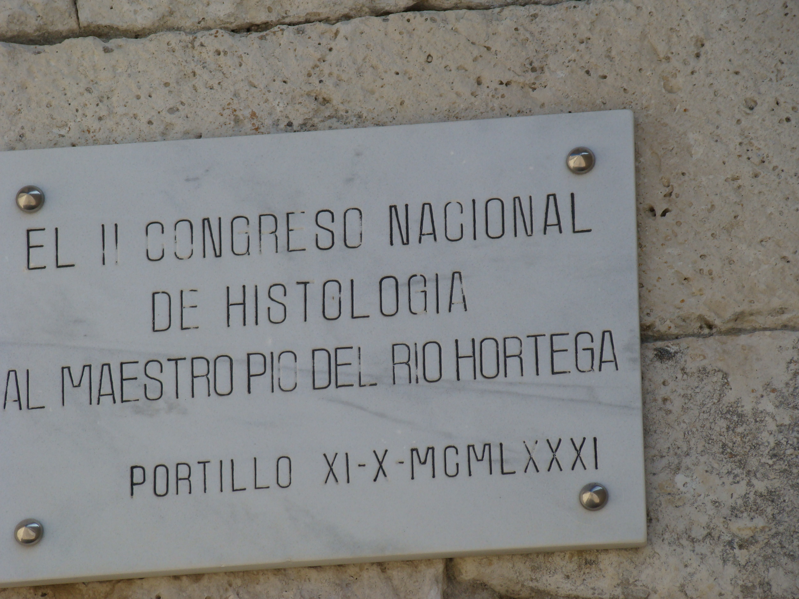 Castle of Portillo at Valladolid (Spain). Plate in honor of the last "Lord of the castle", the scientific Pío del Río Hortega. It is situated on the entrance gate of the castle.